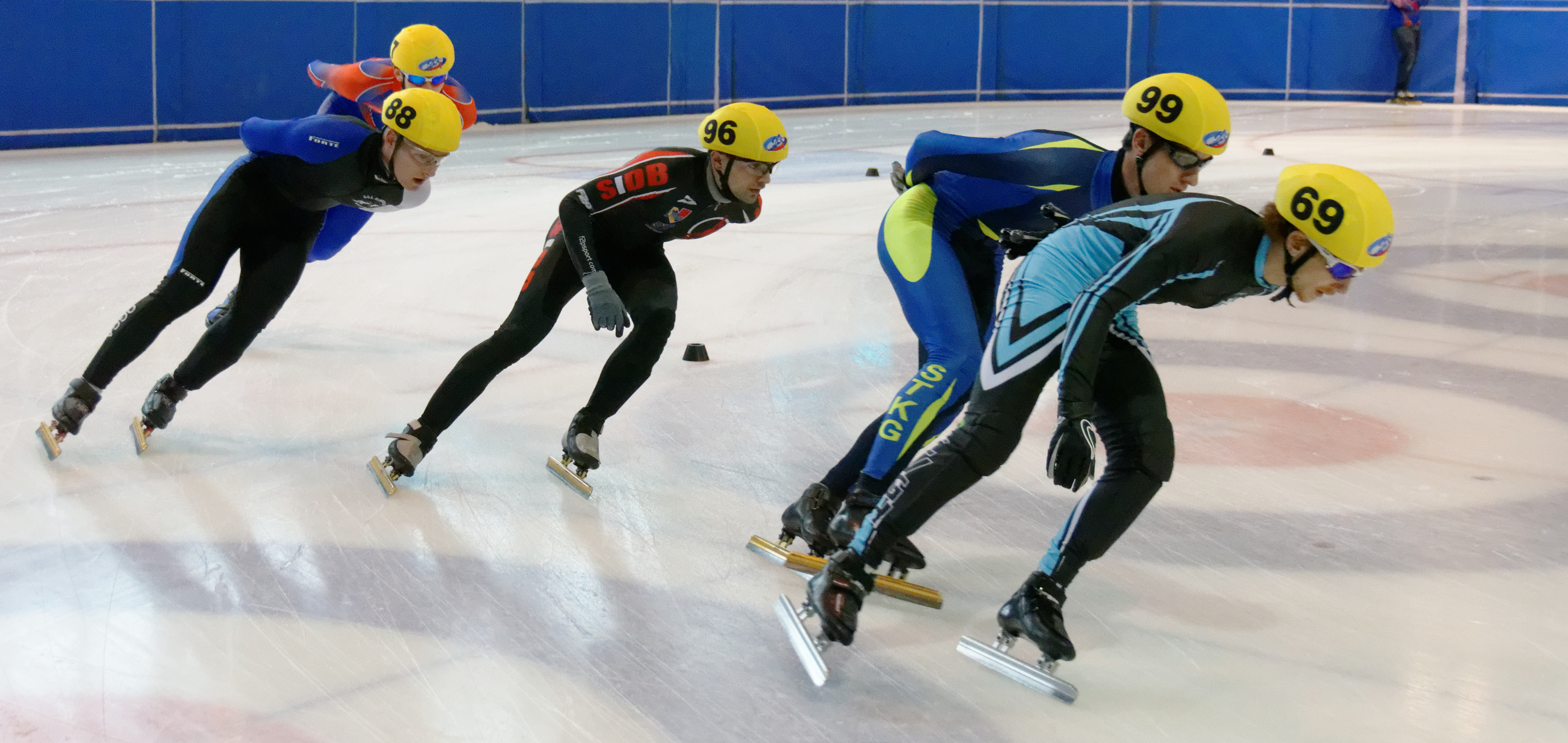 Personality rights warningAlthough this work is freely licensed or in the public domain, the person(s) shown may have rights that legally restrict certain re-uses unless those depicted consent to such uses. In these cases, a model release or other evidence of consent could protect you from infringement claims.